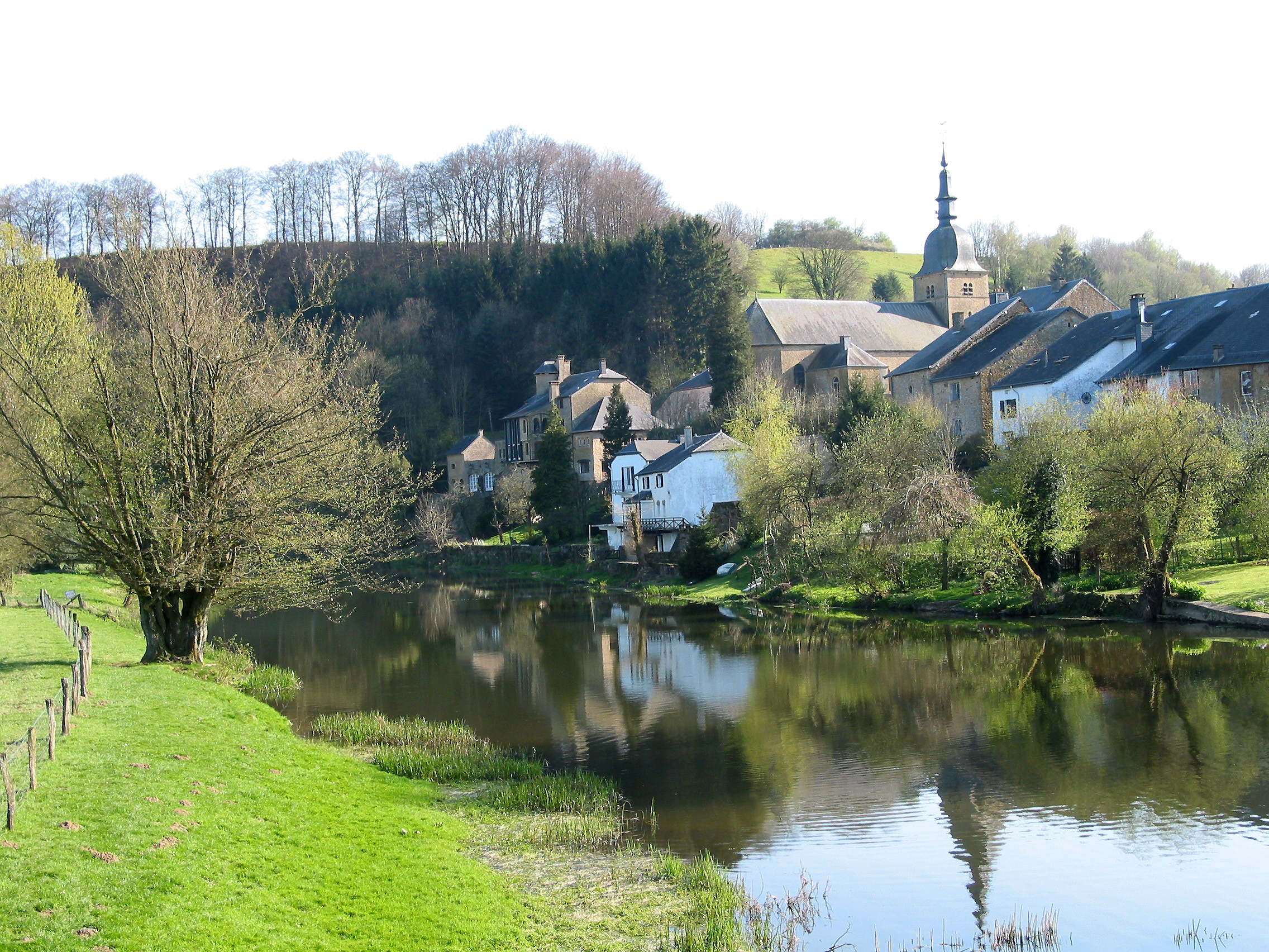 Chassepierre, the village and the Semois river.